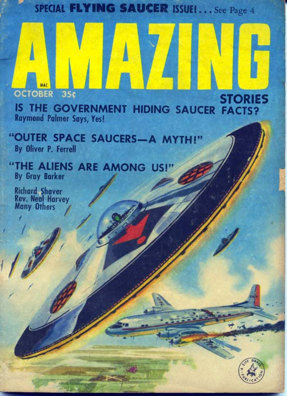 Cover of the pulp science fiction magazine Amazing Stories October 1957. This was a special edition devoted to "flying saucers", which had become a national fad following the 1947 sightings of saucer-shaped flying objects by airline pilot Kenneth Arnold and others, inspiring US Air Force investigations such as Project Blue Book.